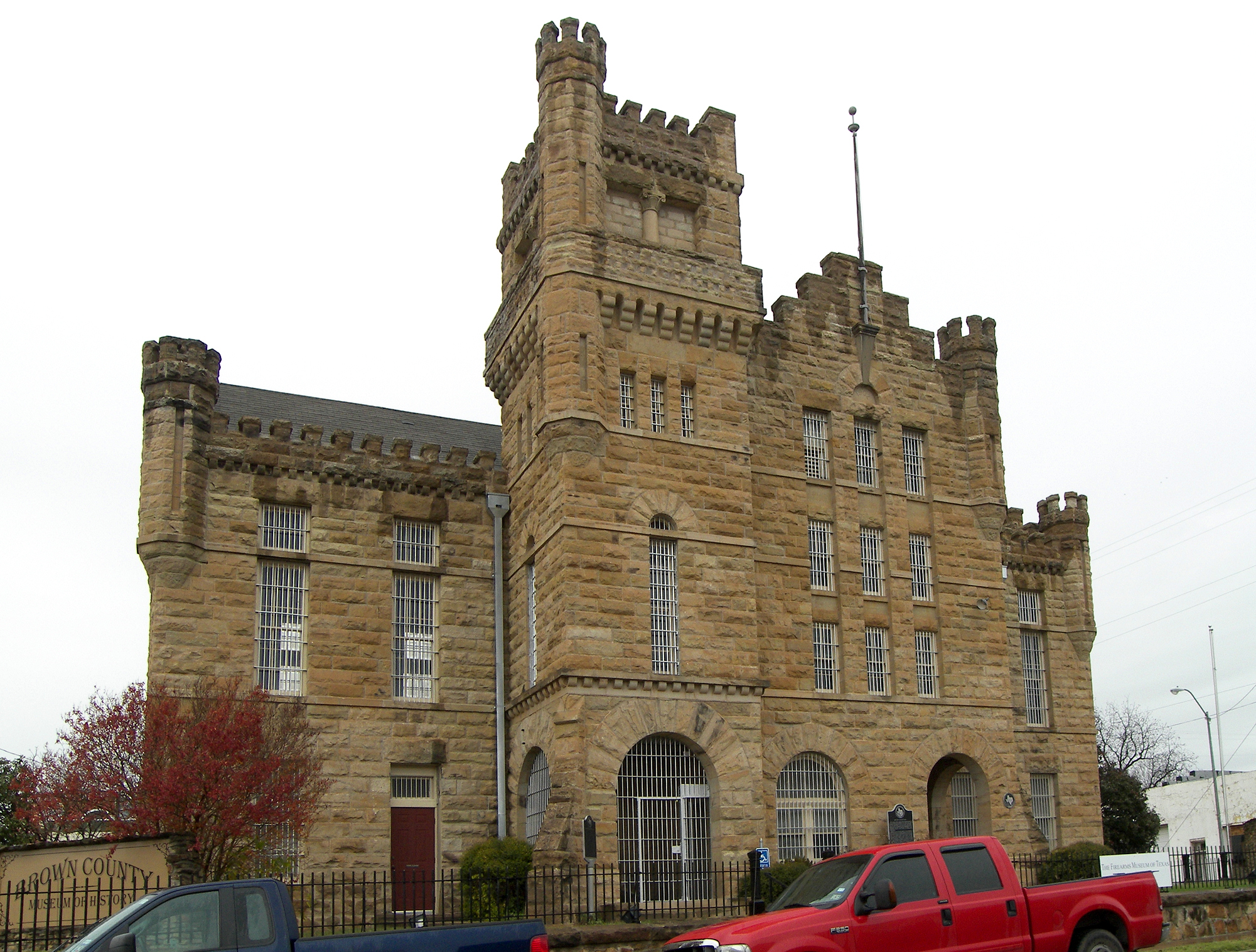 The Brown County Jail, now the Brown County Museum of History, located at 401 W. Broadway, in Brownwood, Texas, United States. The stone Gothic Revival style building was built in 1903. It was designated a Recorded Texas Historic Landmark in 1963 and listed on the National Register of Historic Places on September 22, 1983.